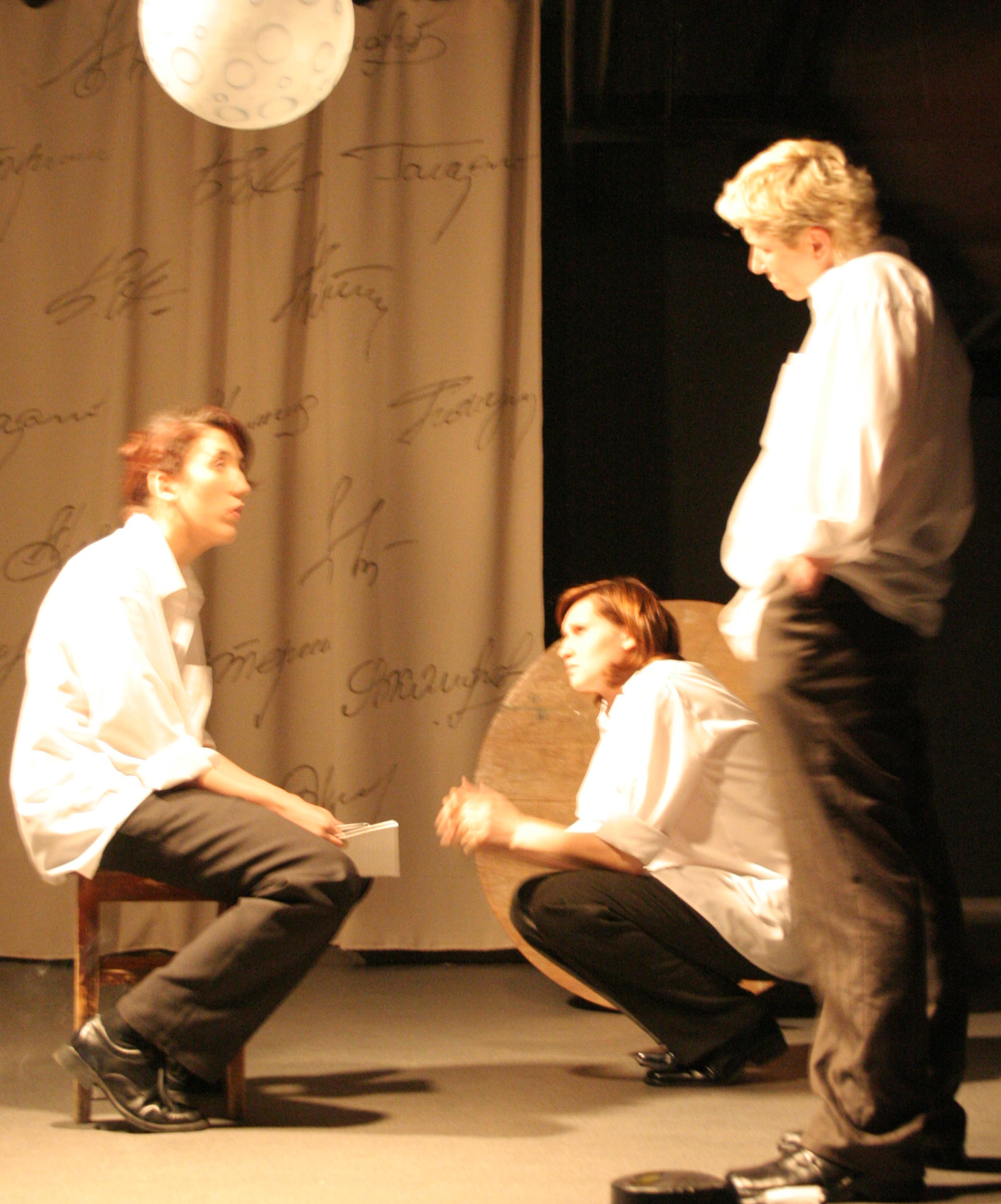 A scene from Gagarin play in Artishok